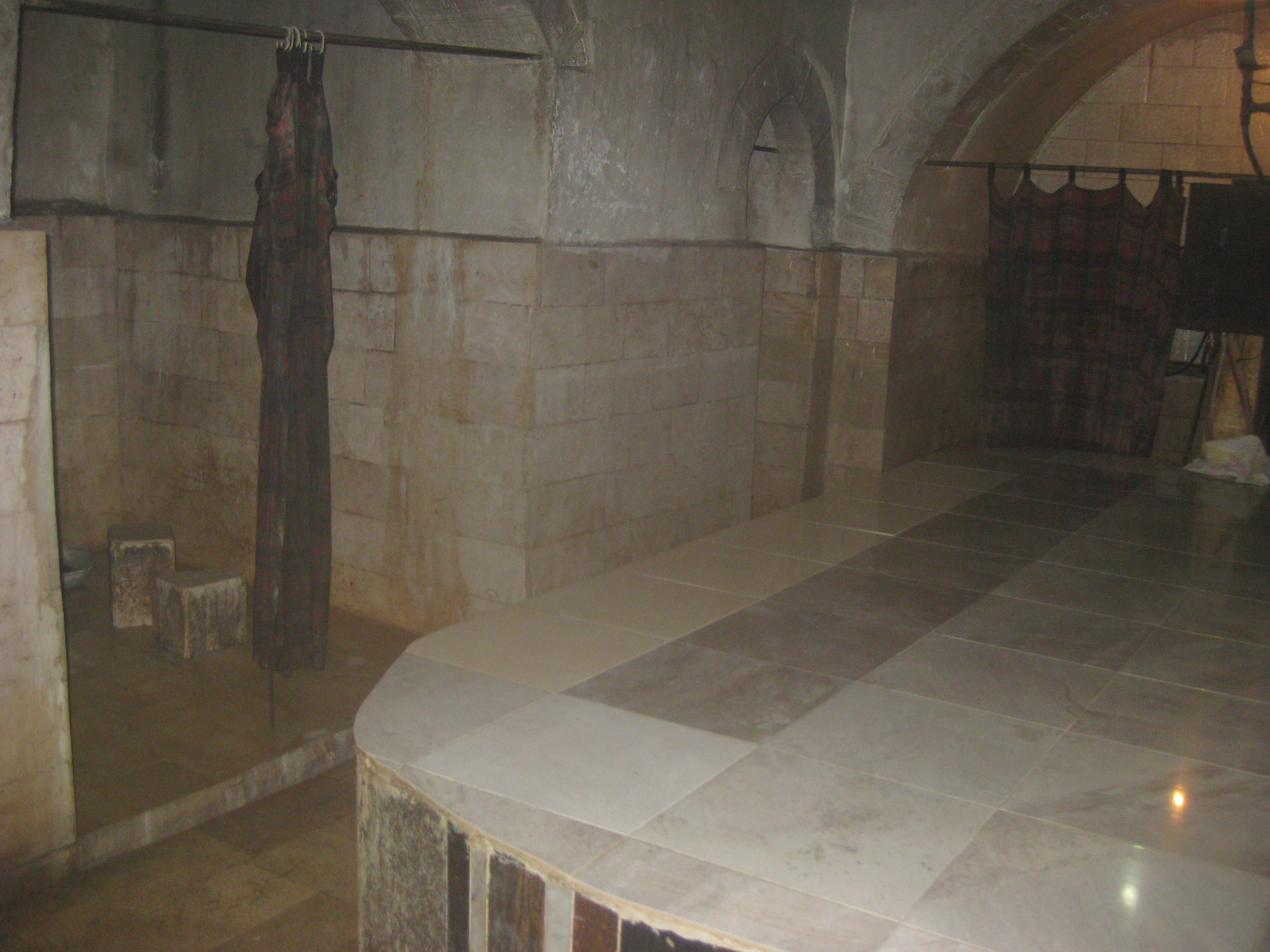 Turkish Bath